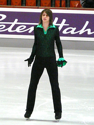 Dean Timmins during his long program at the 2007 Nebelhorn Trophy.